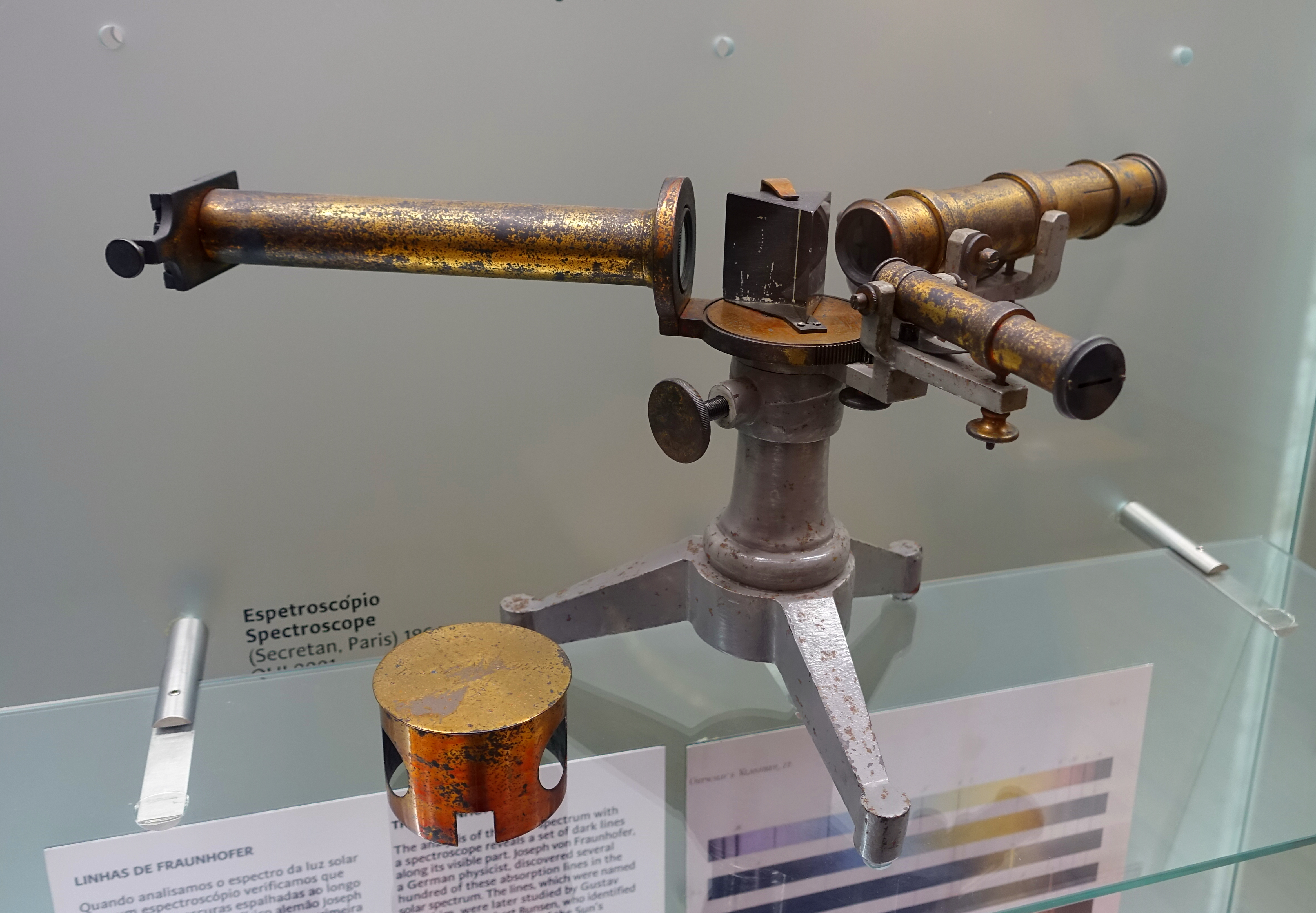 Exhibit in the Museu da Ciência da Universidade de Coimbra - University of Coimbra - Coimbra, Portugal.